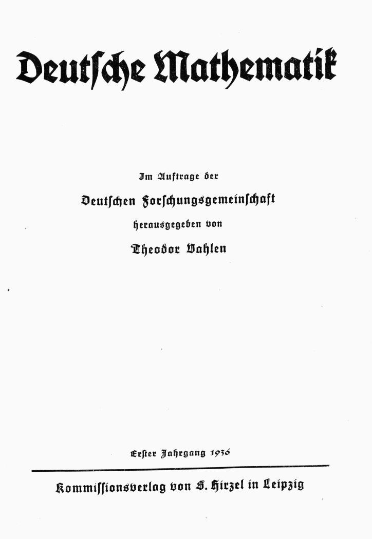 Frontmatter of the journal Deutsche Mathematik, Vol.1 (1936), p.1